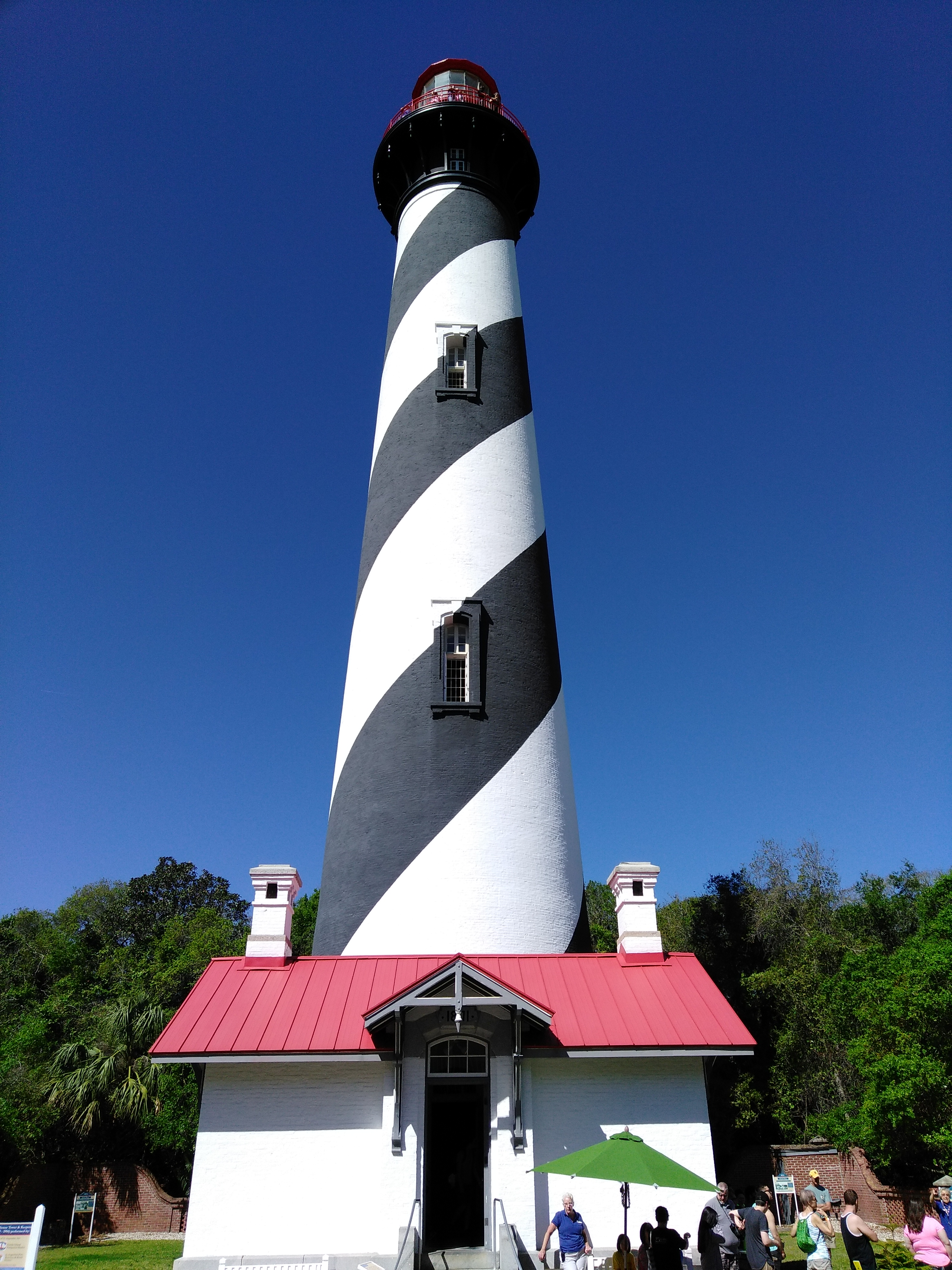 St Augustine FL lighthouse